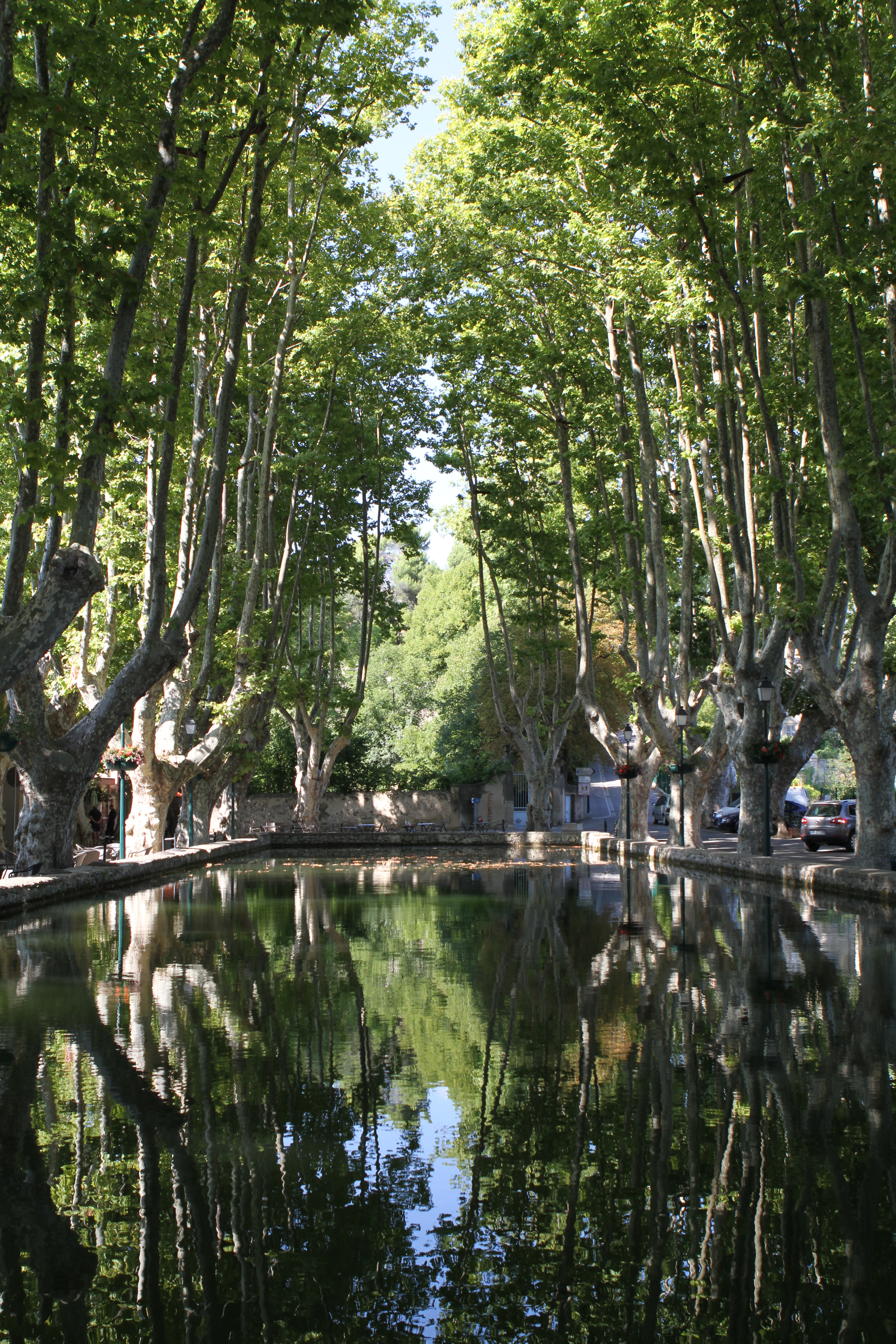 Cucuron (Vaucluse, France)